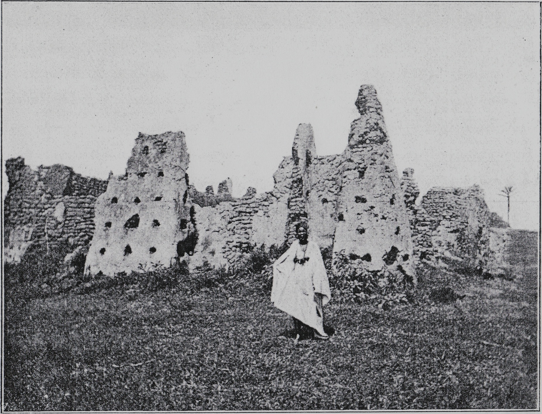 Before one of Samori's sofa troops destroyed mosque near Bouna.